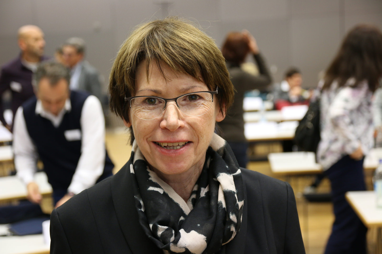 Annette Treibel-Illian Oktober 2017